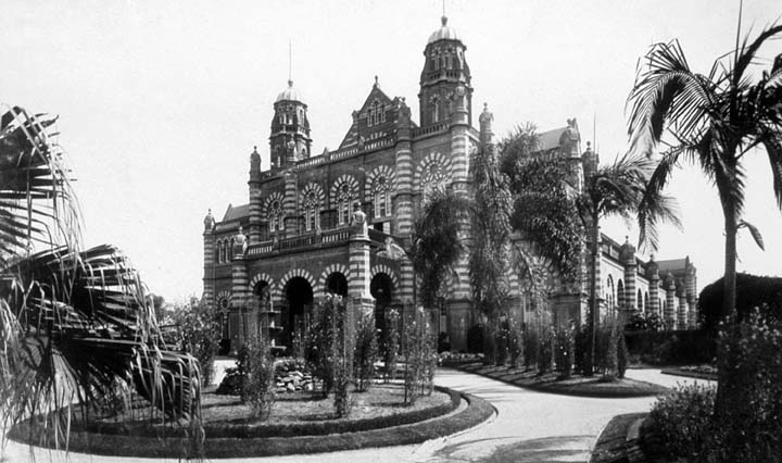 Old Museum Building, Gregory Terrace, Fortitude Valley, Brisbane. (This building was previously known as the Exhibition Building or Concert Hall.)